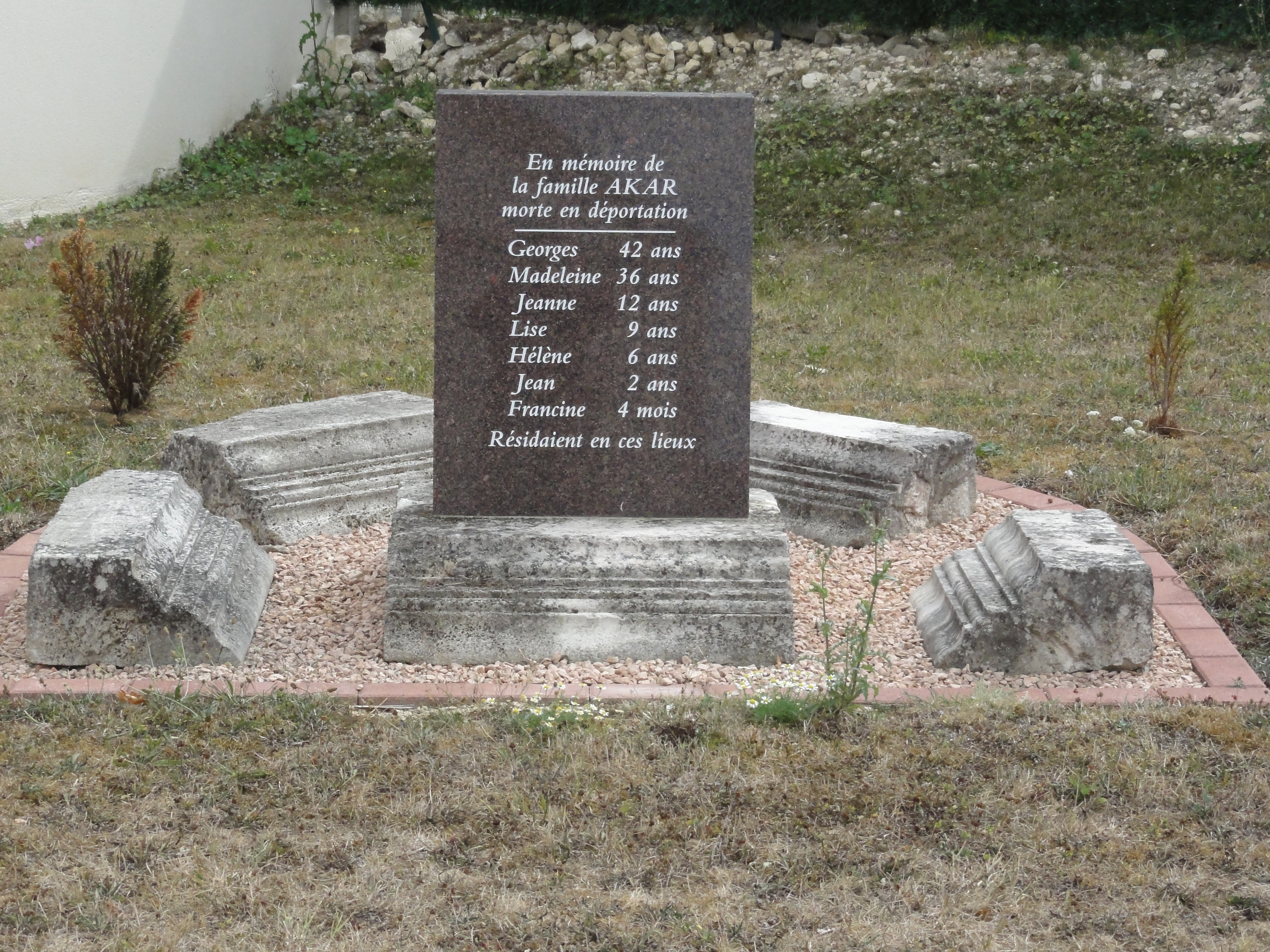 Silmont (Meuse) mémorial famille Akar morte en déportation